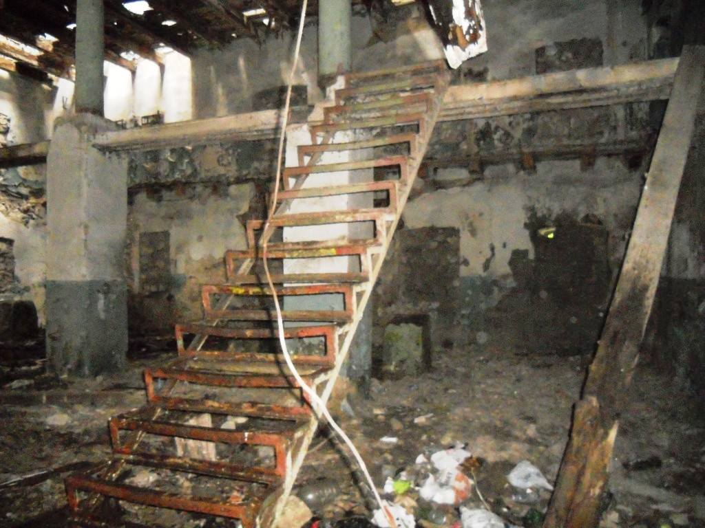 "Red mill" (Romanian Moara roșie), architectural and historical monument in Chișinău, Republic of Moldova